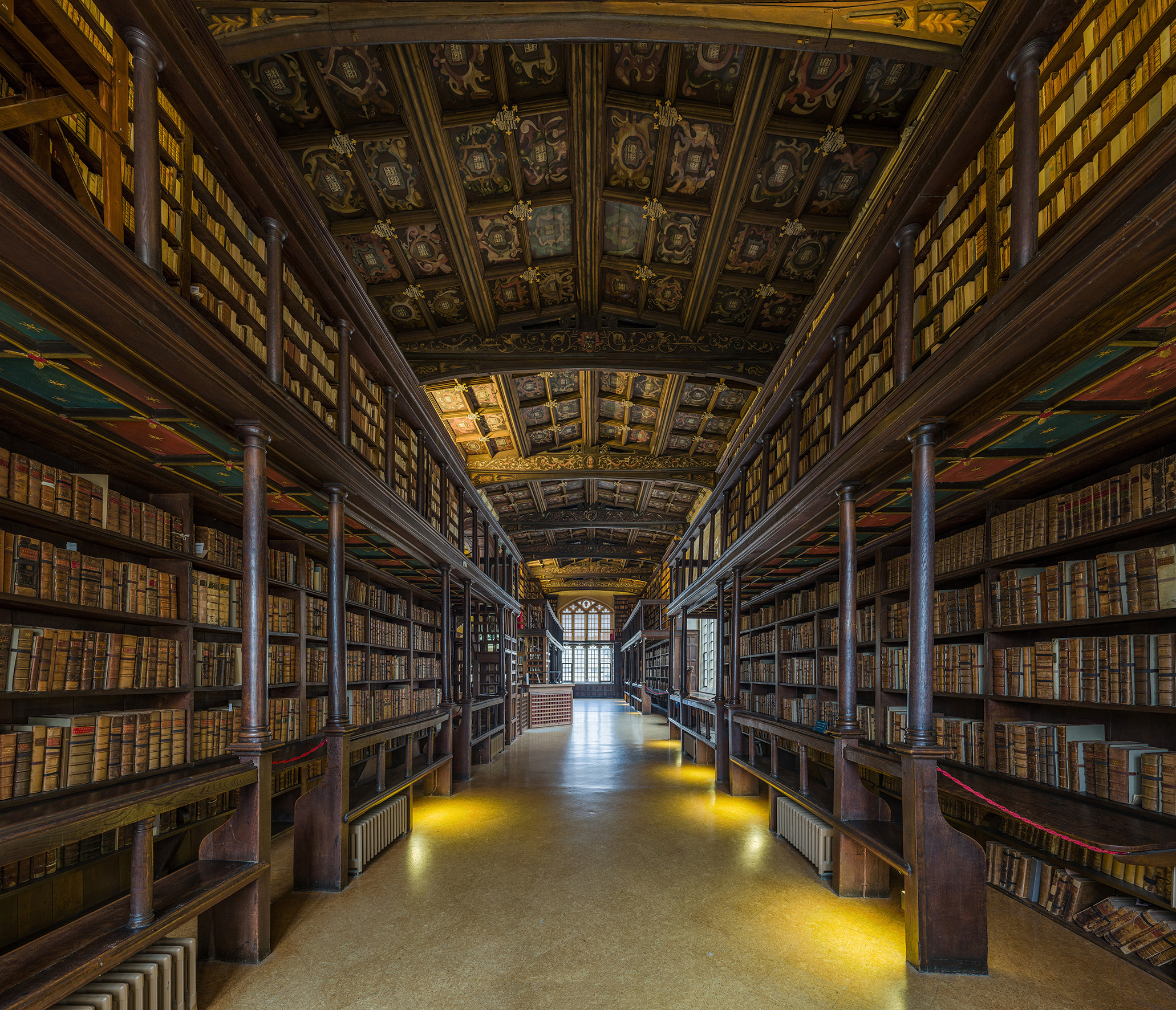 The interior of Duke Humphrey's Library, the oldest reading room of the Bodleian Library in the University of Oxford.